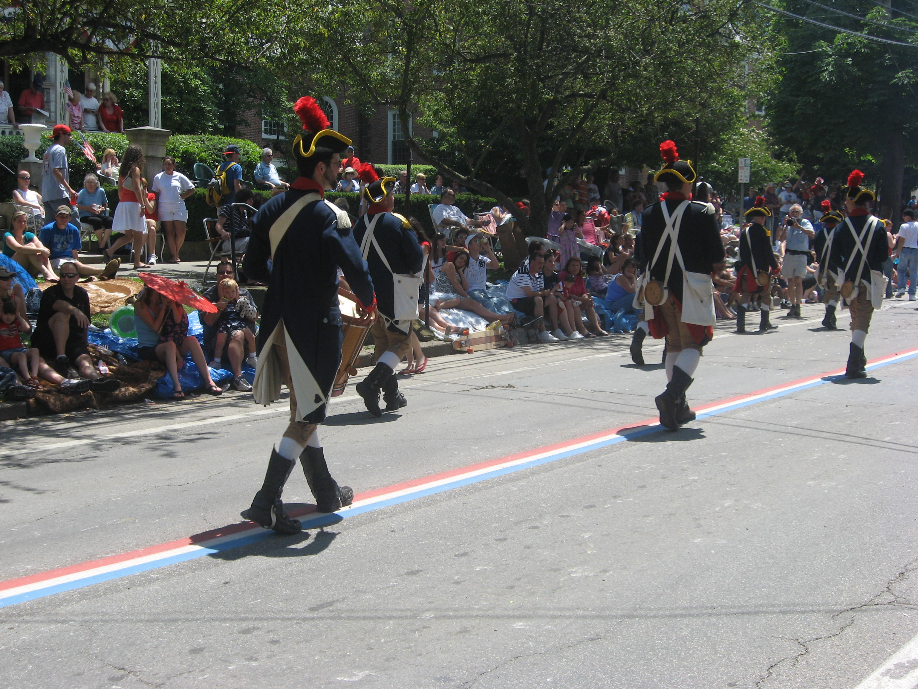 Bristol Train of Artillery